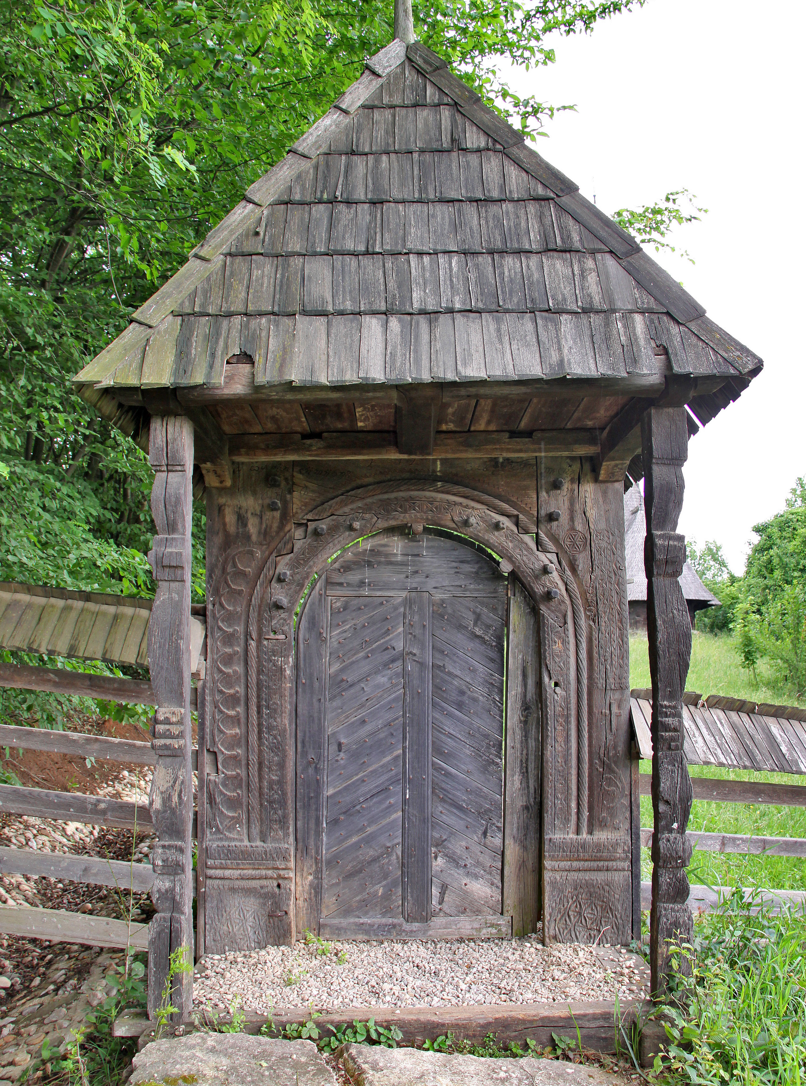 Lita, Cluj, precinct gate of wood, now in the Village Museum in Cluj Napoca.